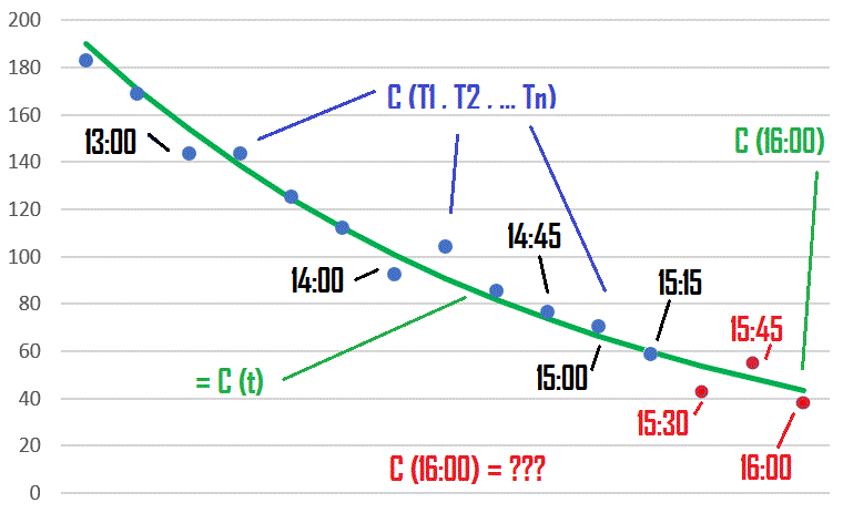 Common method of fitting values in order to forecast the current value and forthcoming values from know values